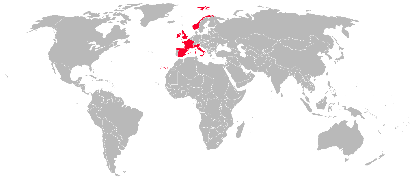 Braathens routemap